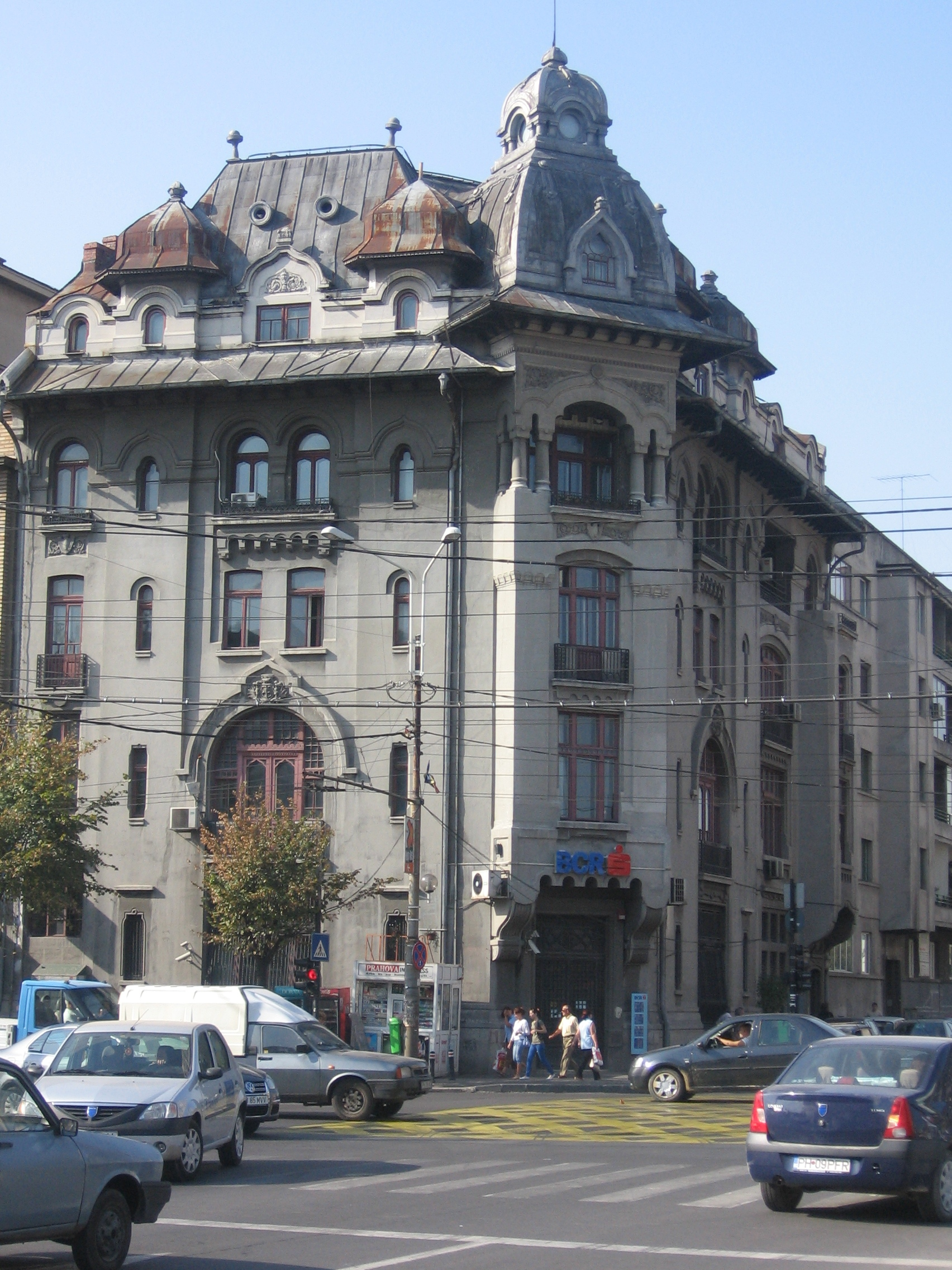 Romanian Commercial Bank, Ploieşti